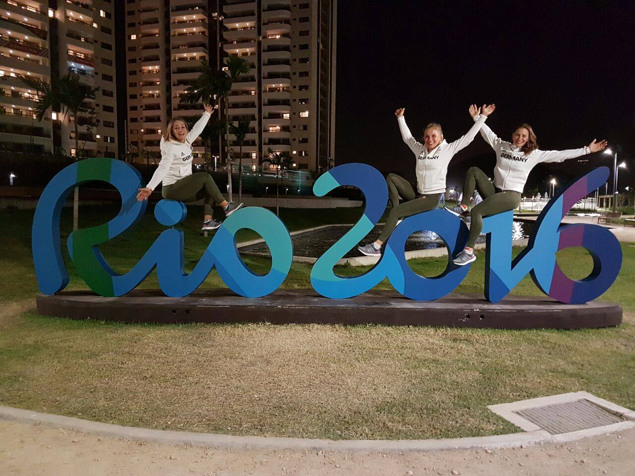 Kristina Vogel, Emma Hinze, Miriam Welte (l.t.r.): At the Olympic village in Rio de Janeiro